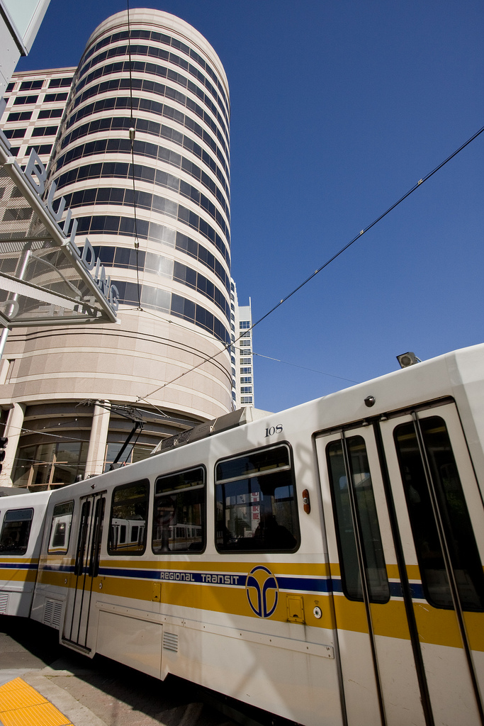 Sacramento regional transit train taking a tight corner downtown